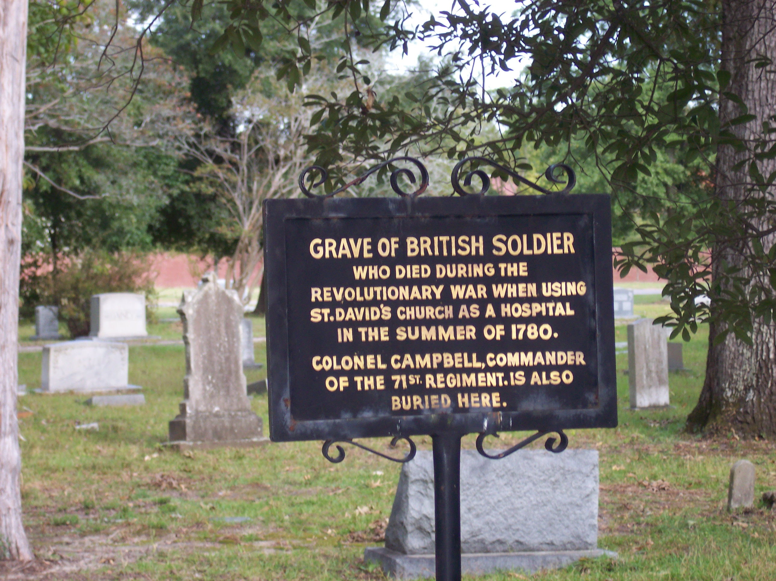 A British Solider's grave in Cheraw South Carolina from the American Revolution.